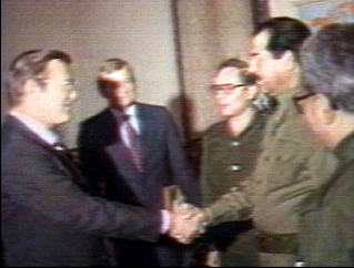 Original caption:"Shaking Hands: Iraqi President Saddam Hussein greets Donald Rumsfeld, then special envoy of President Ronald Reagan, in Baghdad on December 20, 1983." As this is a simple report of news in progress, it appears to be a simple (ie non-artistic) audio-visual work, protected for only 5 years under Iraqi law